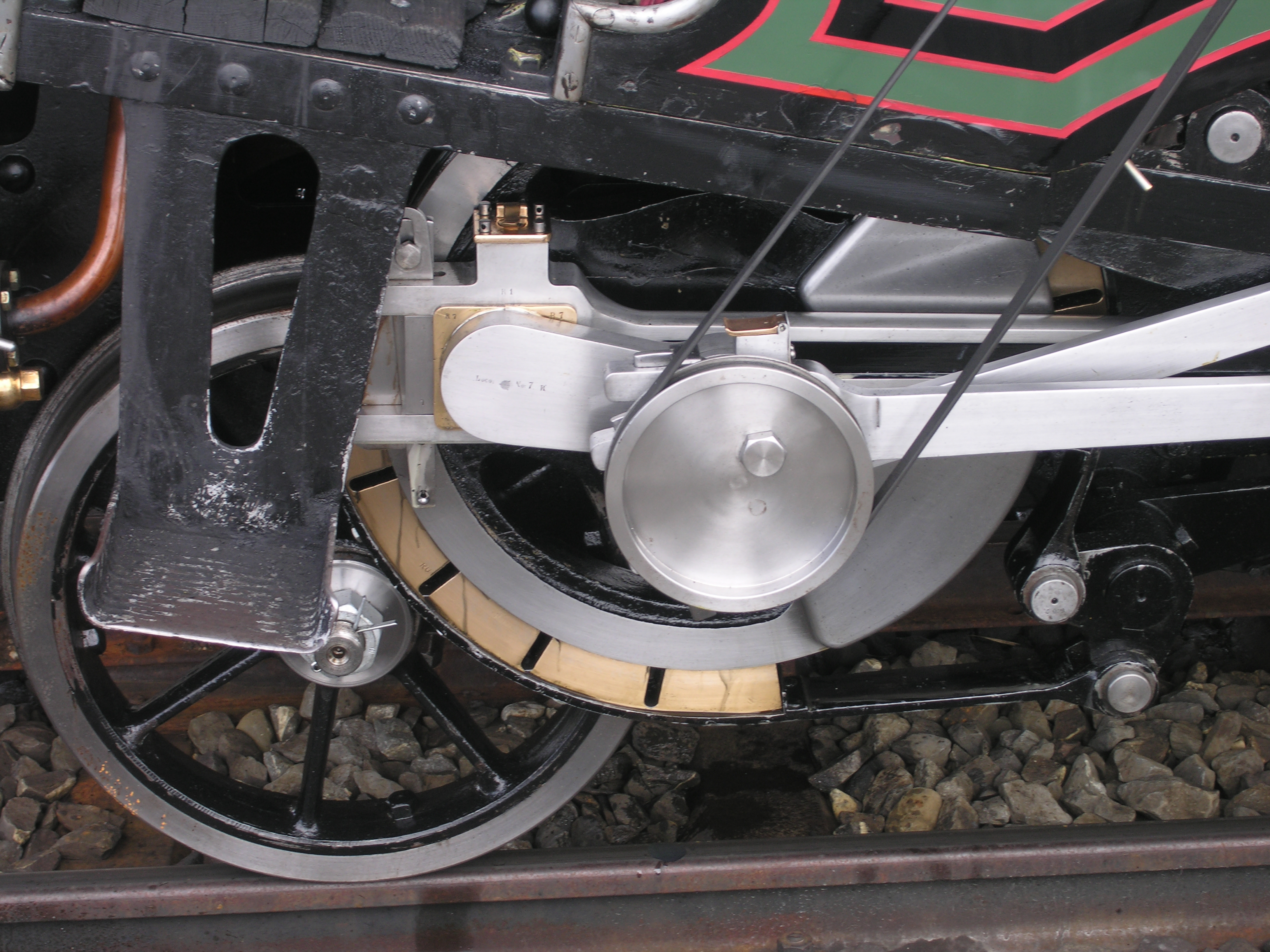 The braking system of the 1873 year steam locomotive, used in Rigi.